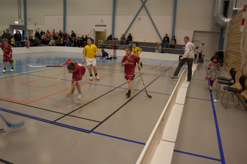 Floorball at Hanahallen